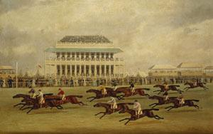 Finish of the 1822 Epsom Derby. Moses wins. Painting by James Pollard (1792-1867). Artist dead for 167 years.